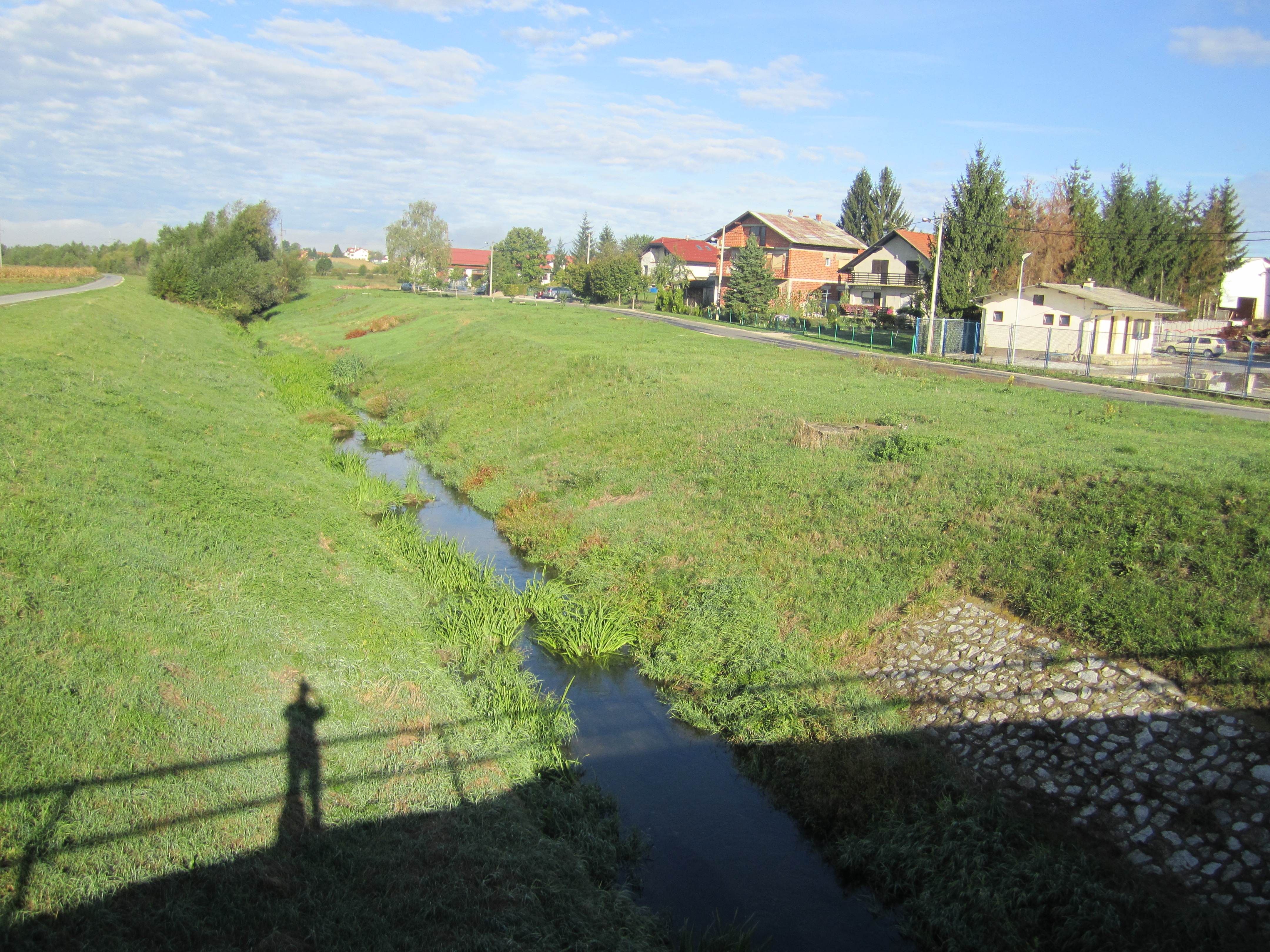 The village of Zlatar Bistrica and upper flow of Krapina River